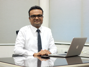 Jagan Institute of Management - JIMS Rohini - Mr. Manish Gupta (Chairman)